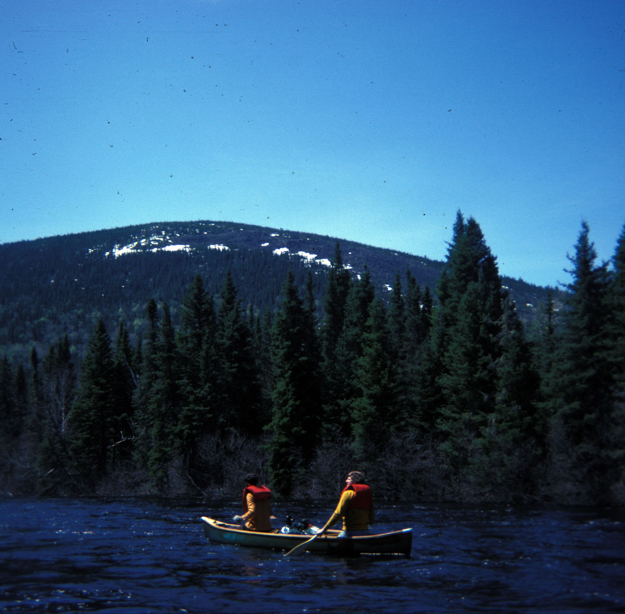 Canoeing Nepisiguit River east of Popple Depot, New Brunswick, Canada (IR Walker 1977).